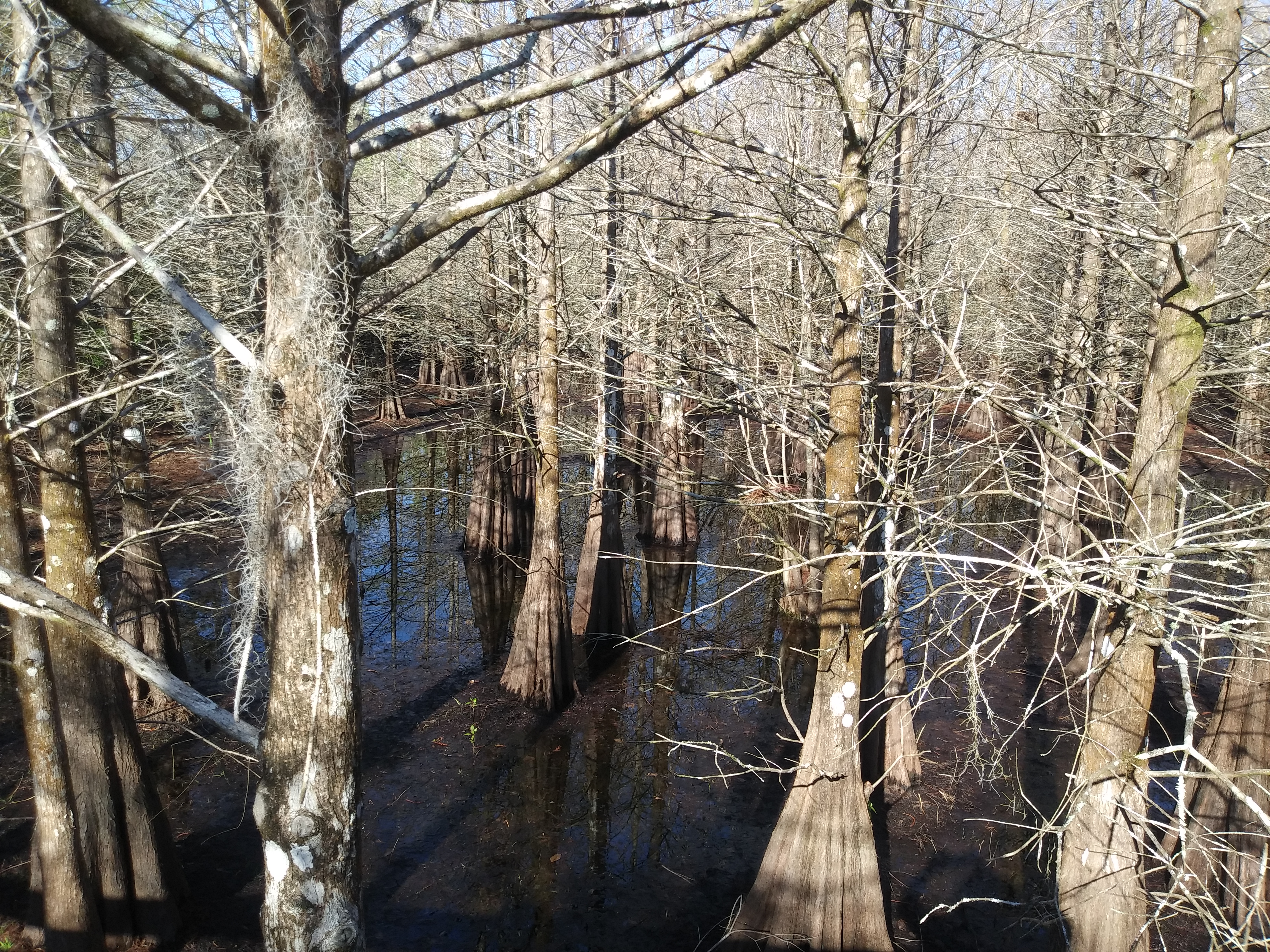 This is a stand of bald cypress trees located in the Six Mile Cypress reserve located in Lee County Florida, US